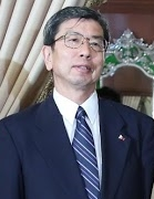 Takehiko Nakao